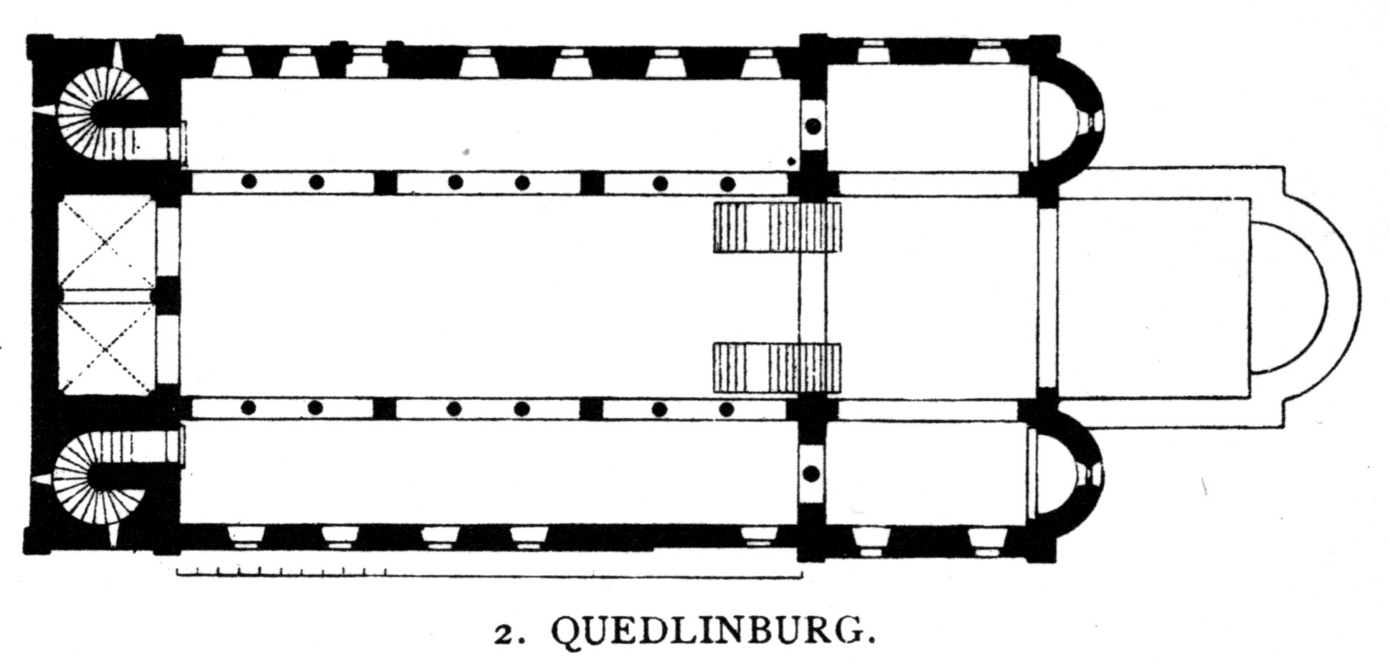 Quedlinburg. Schlosskirche (formerly Stiftskirche), Floor plan.